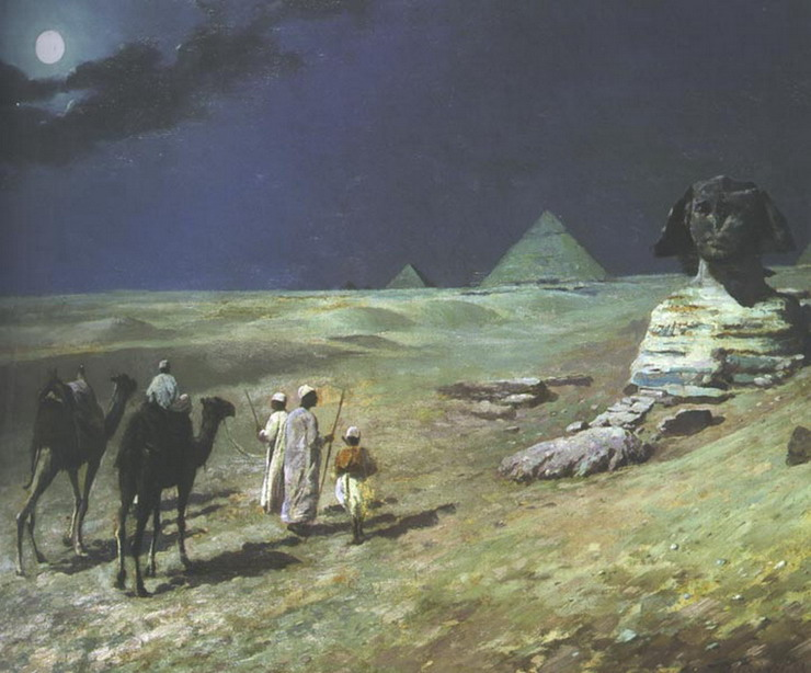 Sphinx.